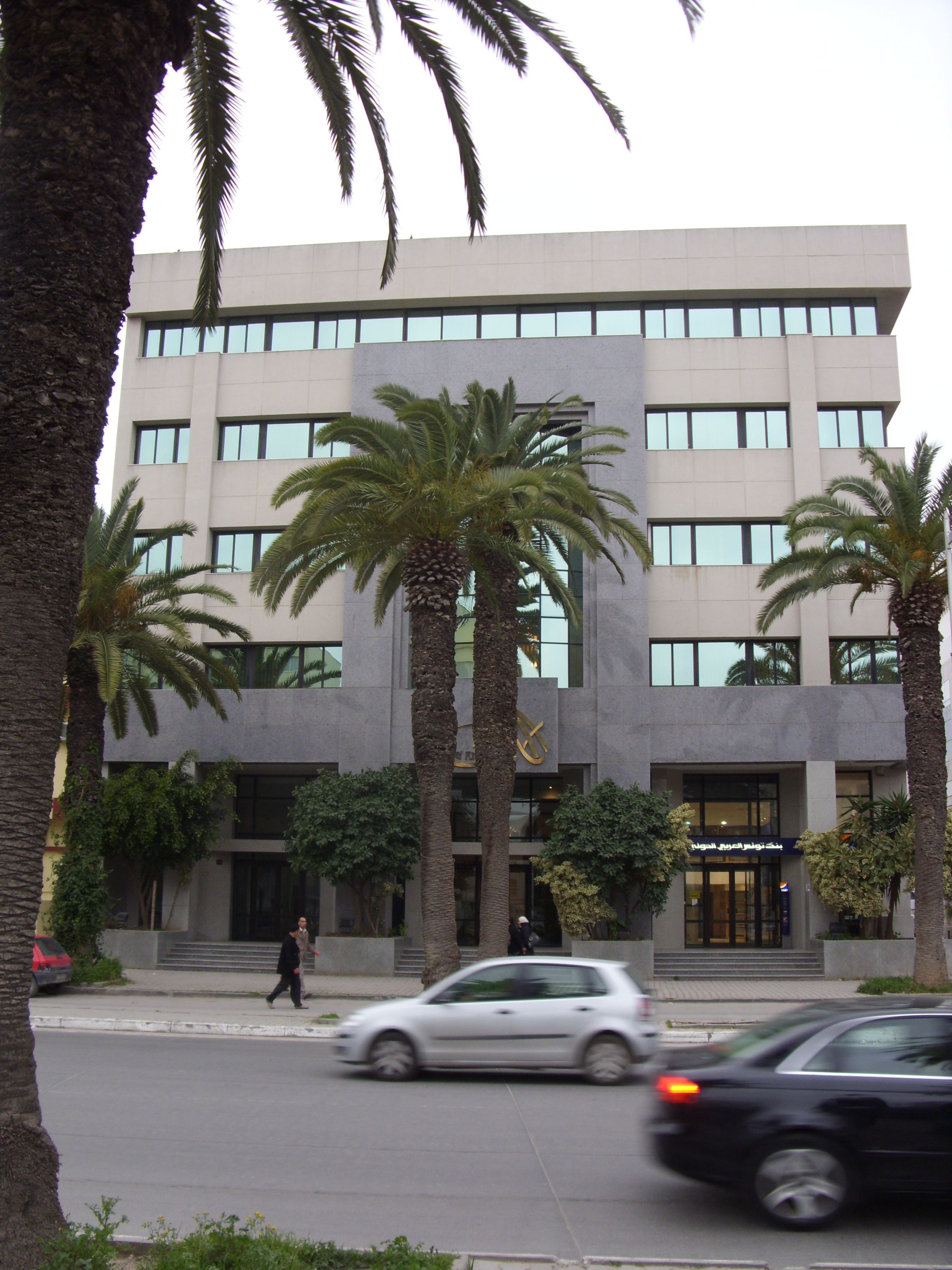 Hachicha group headquarters